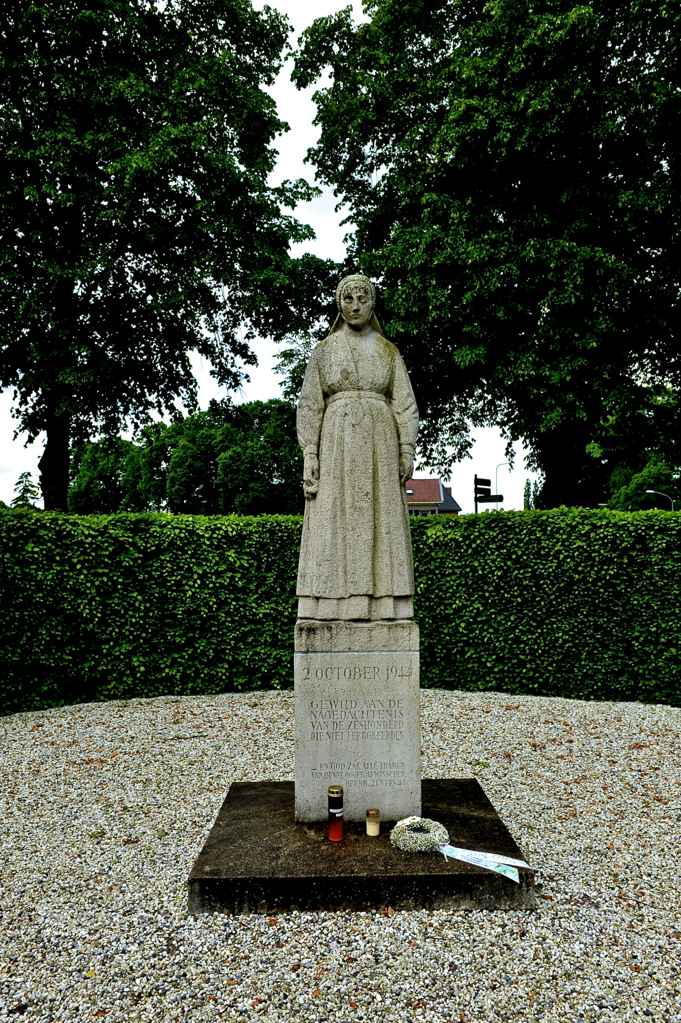 Na een aanslag door het verzet in oktober 1944 op een Duits militair voertuig met eigenlijk onbelangrijke inzittenden, sloeg de beztter keihard terug. Het dorp werd ontruimd en in brand gestoken. Daarnaast werden 600 mannen afgevoerd naar concentratiekampen. uiteindelijk keerden slechts 48 mannen na de oorlog terug in Putten. Het beeld (1949) is gemaakt door de Nederlandse kunstenaar Mari S. Andriessen. De herdenkingshof werd ontworpen door Jan B.T. Bijhower.